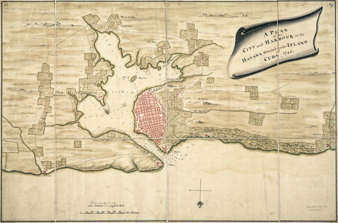 A plan of the city and harbour of the Havanna situated on the island of Cuba Date: 1740 Dimensions: 49.0 x 74.0 cm. Scale: Scale not given